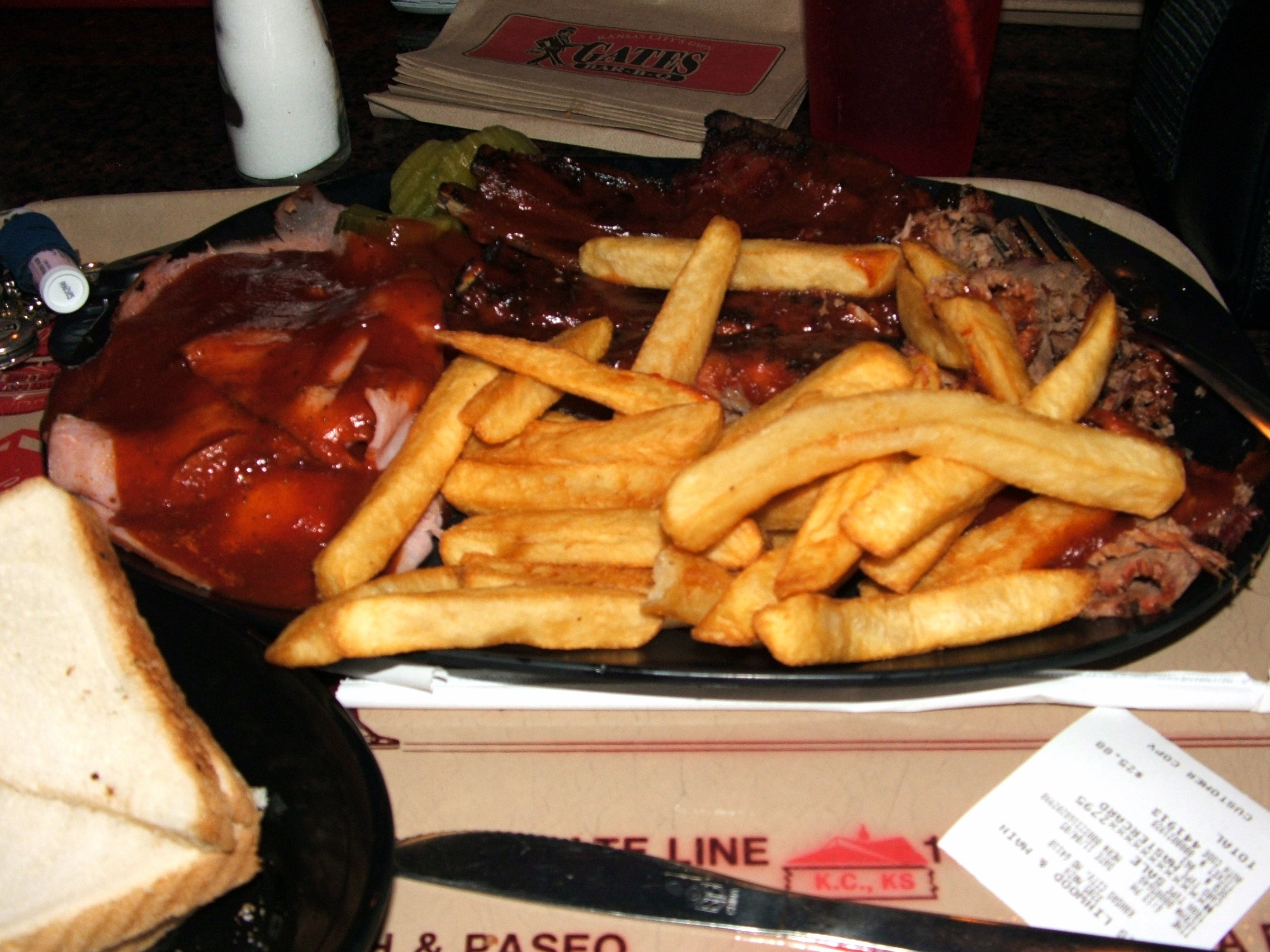 At Gates Barbecue in Kansas City. A combo plate of way too much food.